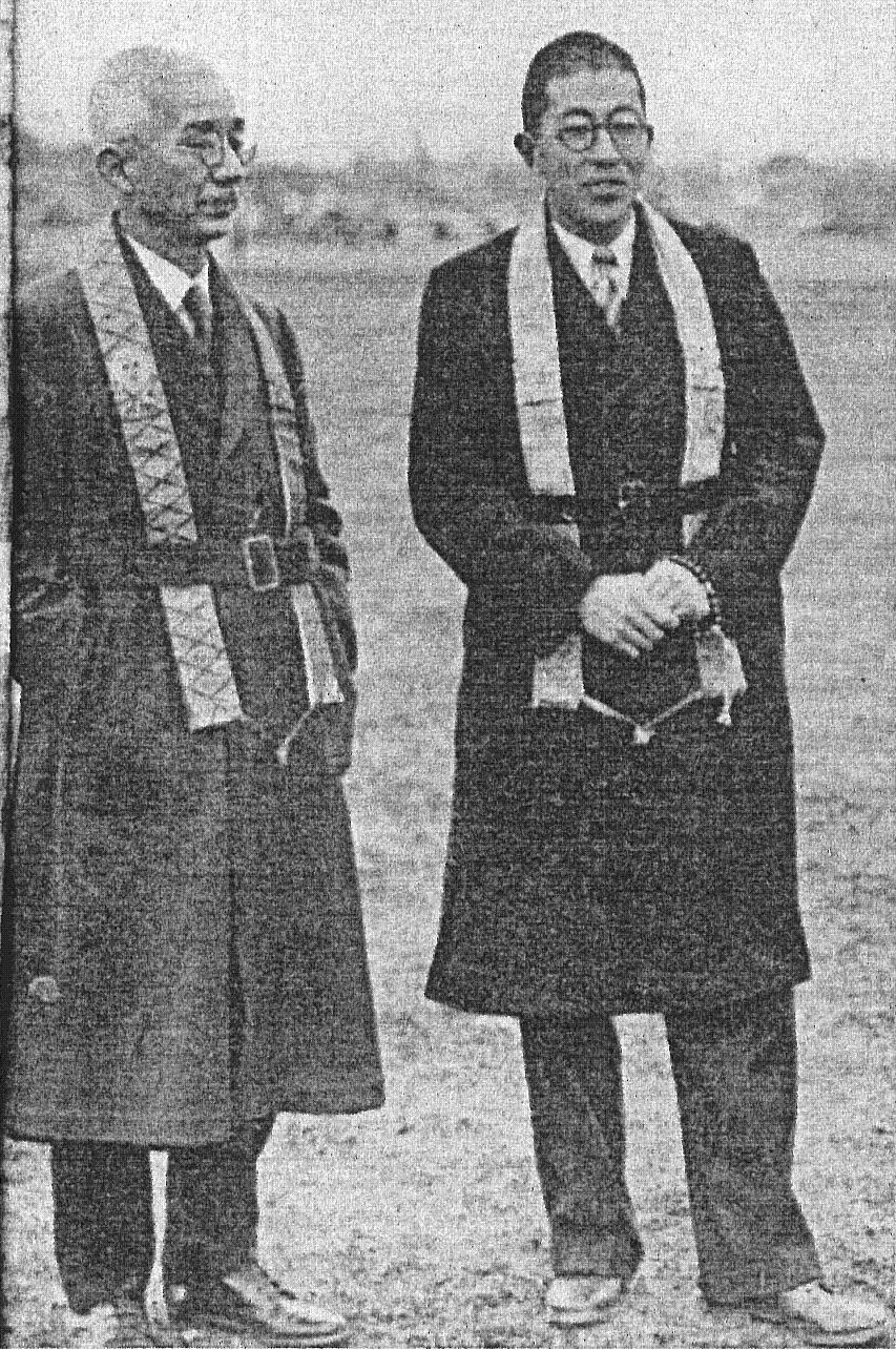 Otani Kosho(right), Supreme leader of Nishi Honganji, at the memorial service of Nanking（December 18, 1937）